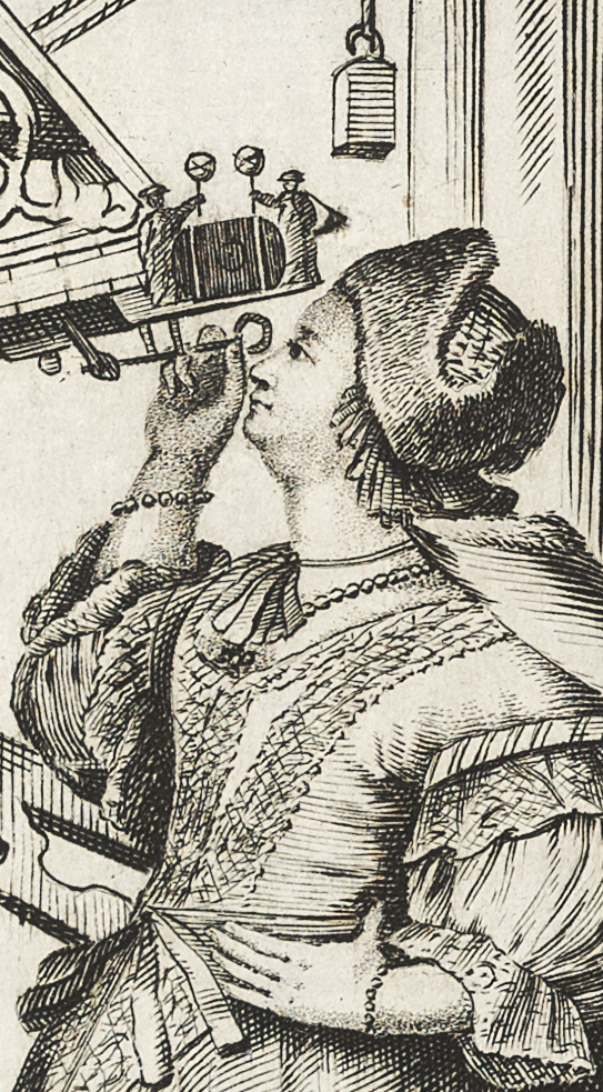 Elisabetha Hevelius observing the sky with a brass octant. Detail from an engraving from Johannes Hevelius's "Machinae Coelestis: Pars Prior", (1673), fig. O, facing p. 254.